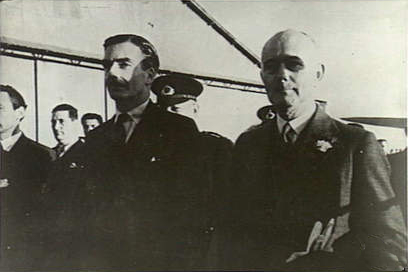 Mr Anthony Eden with the British Ambassador to Turkey, Sir Hughe Knatchbull-Hugessen, arriving at Adana, Turkey.